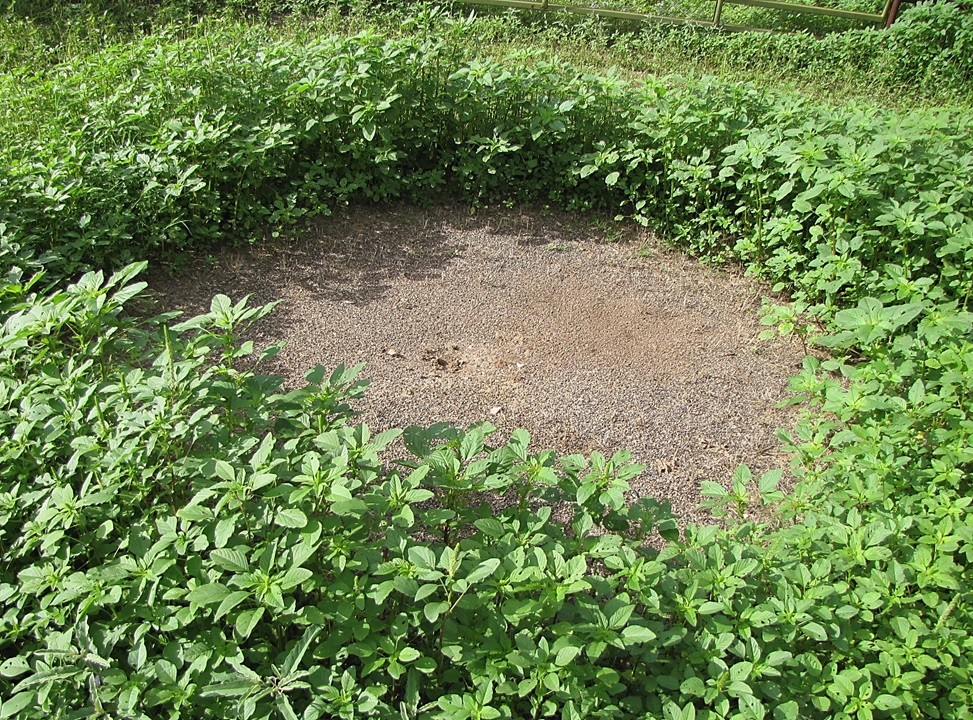 Clearing typical of the ant P. barbatus prompting the name 'Harvester Ant' as they clear-cut an ever-widening perimeter around the main nest entry. This example about 2 meters in diameter, and if left undisturbed, the clear-cut area by the ants will continued to be expanded.